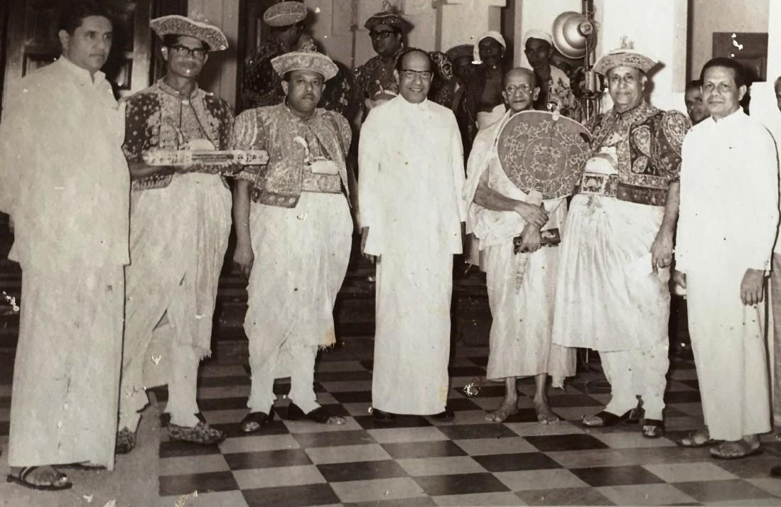 Cultural Affairs Minister Semage Salman Kulatileke, Ganegoda Kataragama Devalaya Basnayaka Nilame S. B. Udurawana, Mahanuwara Pattini Devalaya Basnayaka Nilame H. M. Navaratne, President of Sri Lanka William Gopallawa, Most Venerable Wimalakeerthi Sri Sumanapanditha Sirimalwatte Ananda Mahanayaka Thero of Malwathu Maha Viharaya, Diyawadana Nilame H. B. Udurawana, Cultural Affairs Ministry Permanent Secretary Nissanka Parakrama Wijeyeratne. Photographed in 1973 at Sri Dalada Maligawa and owned by Anuradha Dullewe Wijeyeratne. Names appear in order, from left to right.